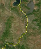 Satellite picture of Devoll District, Albania